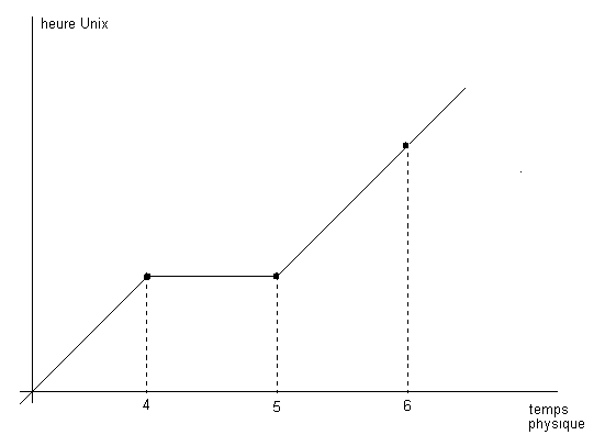 clock frozen when a leap second is inserted